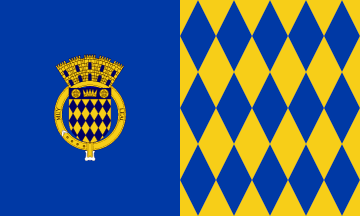 Flag of Arecibo, Puerto Rico